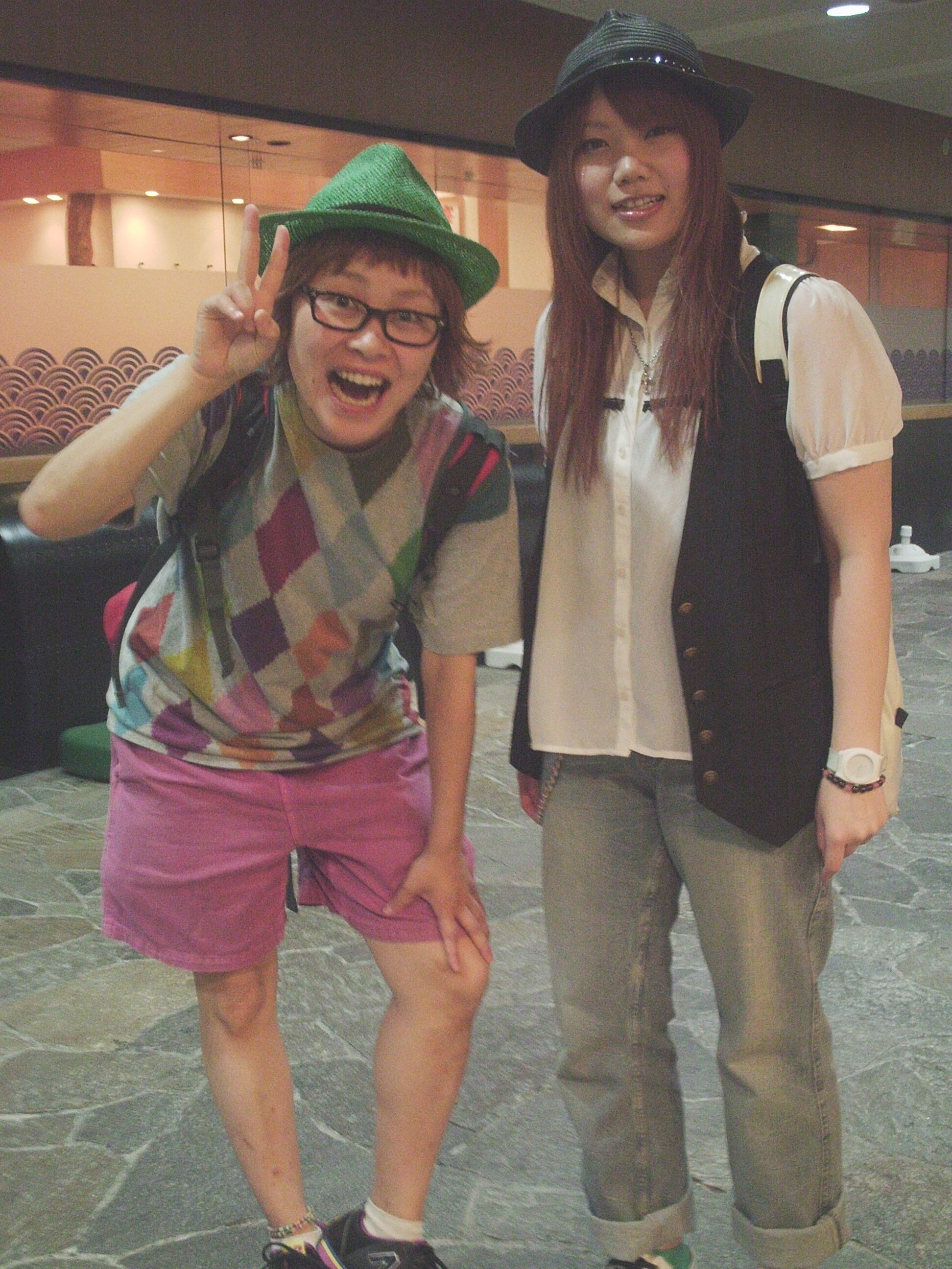 おひさまロケット (2009年8月)